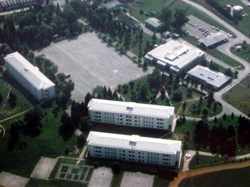 Vojašnica Novo Mesto